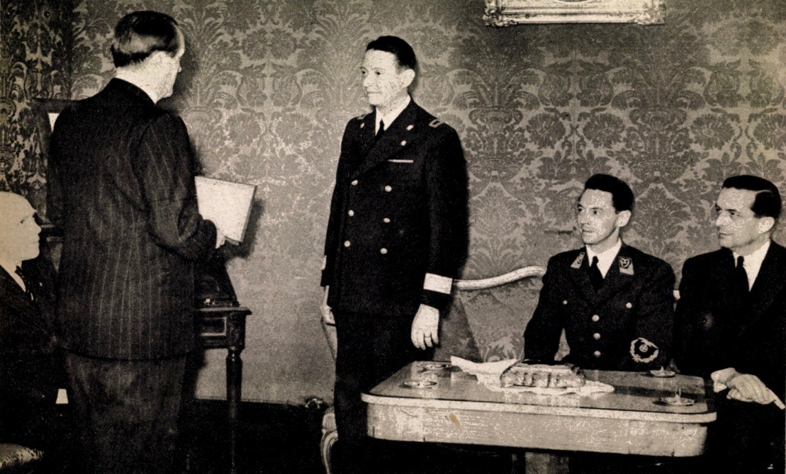 Photo from "Liv i kamp for Norge" ("Marie og Gulbrand Lunde Et liv i kamp for Norge"), a memorial book about Norwegian couple Marie (1907–1942) and Gulbrand Lunde (politician, 1901–1942), published by "Rikspropagandaledelsen" (propaganda department of Nasjonal Samling, Norwegian fascist party 1933–1945) and "Blix forlag" in Oslo, Norway 1942.Cropped JPG from PDF (a low resolution digitized version) of the book downloaded from National Library of Norway's site NO-OsNB (999824600824702202)